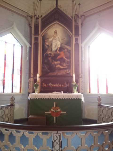 The altar area in Lygra church, Hordaland, Norway